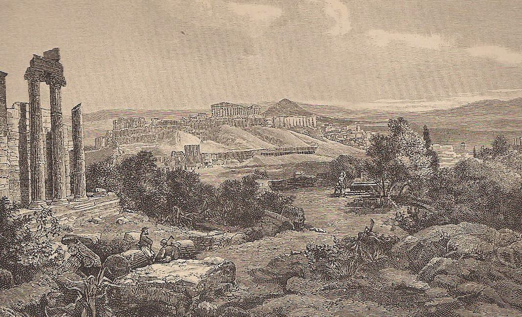 View of the Attic Plains, with a glimpse of the Acropolis of Athens. Scanned from A General History for Colleges & High Schools by P.V.N. Myers, book published 1890.